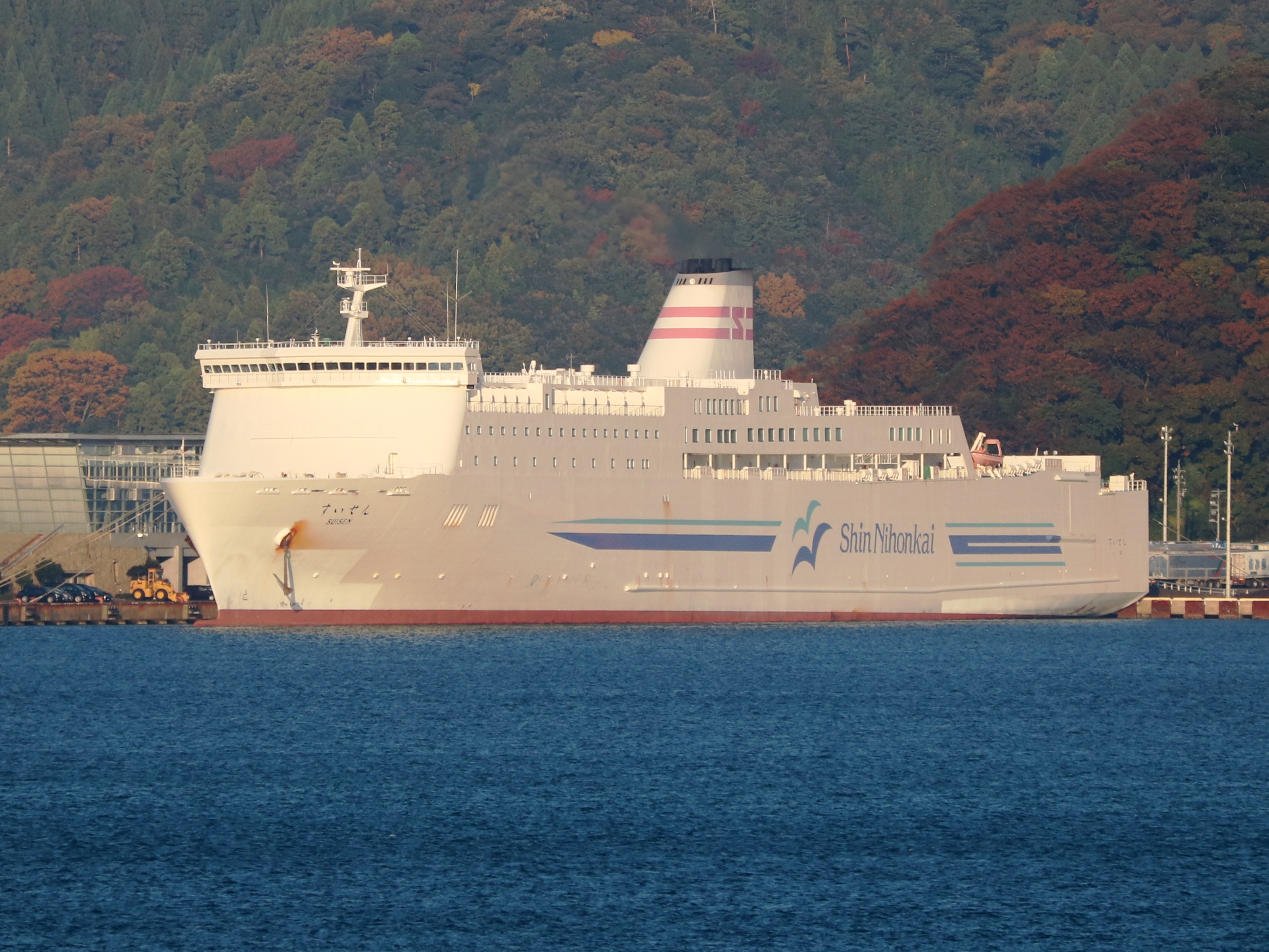 Suisen (ship, 2012) of Shinnihonkai Ferry in Port of Tsuruga, Tsuruga, Fukui Prefecture, Japan.